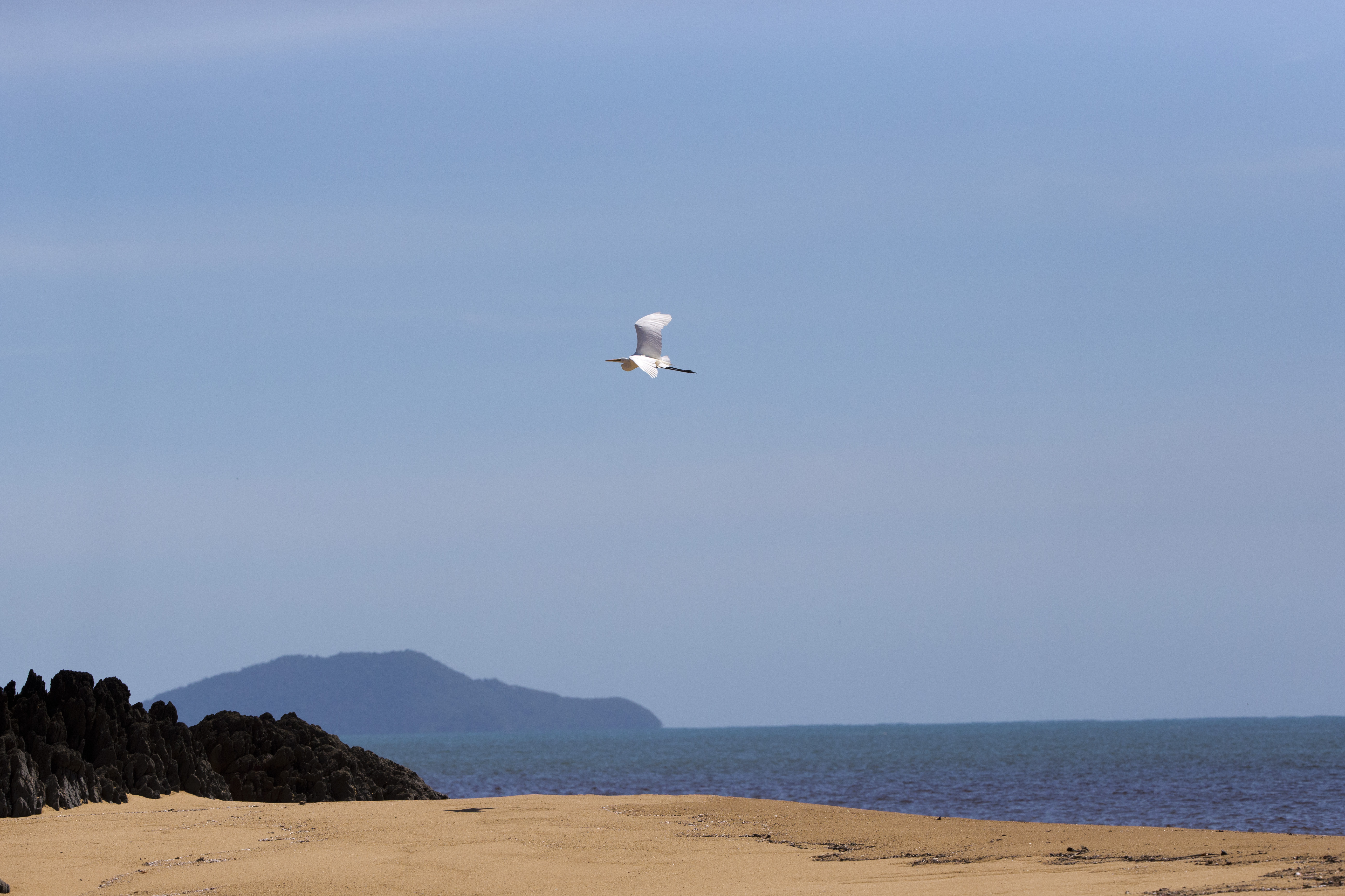 egret at the nouth of the east russell